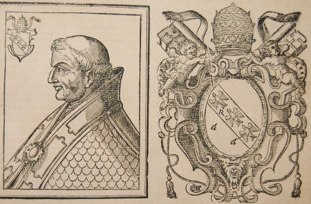 Pope Stephanus IX and his coat of arms